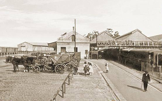 Rosario Central train station, built and operated by the Central Argentine Railway.